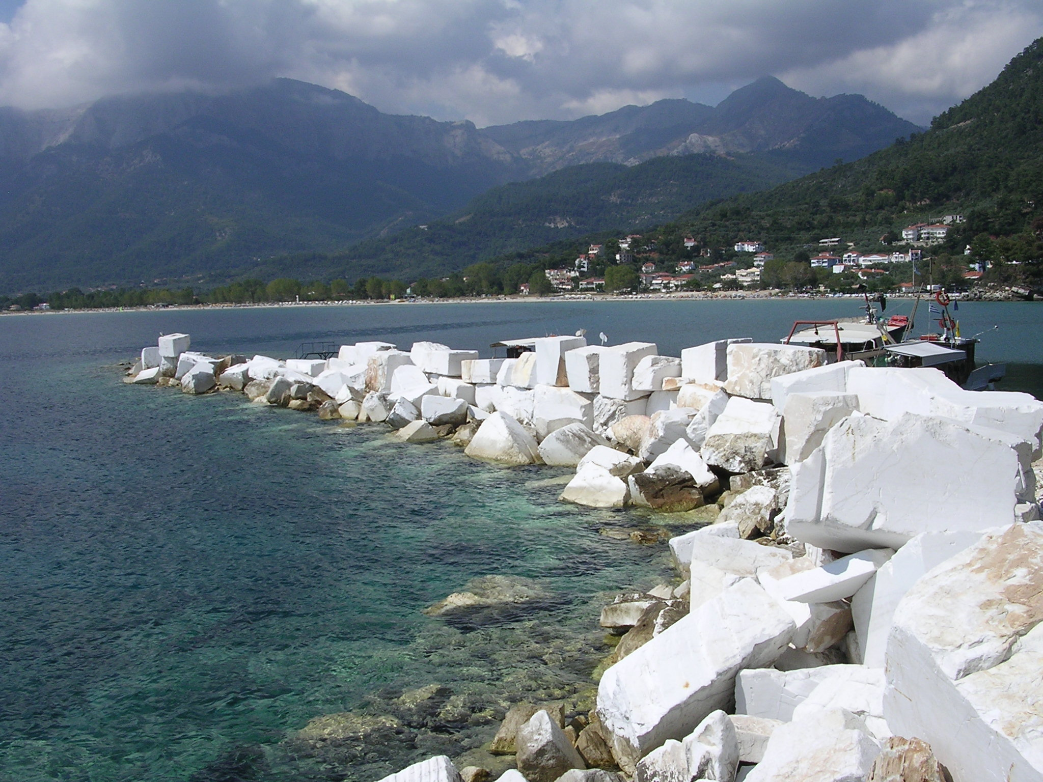 A wavebreaker made out of marble slabs, Thasos in Greece